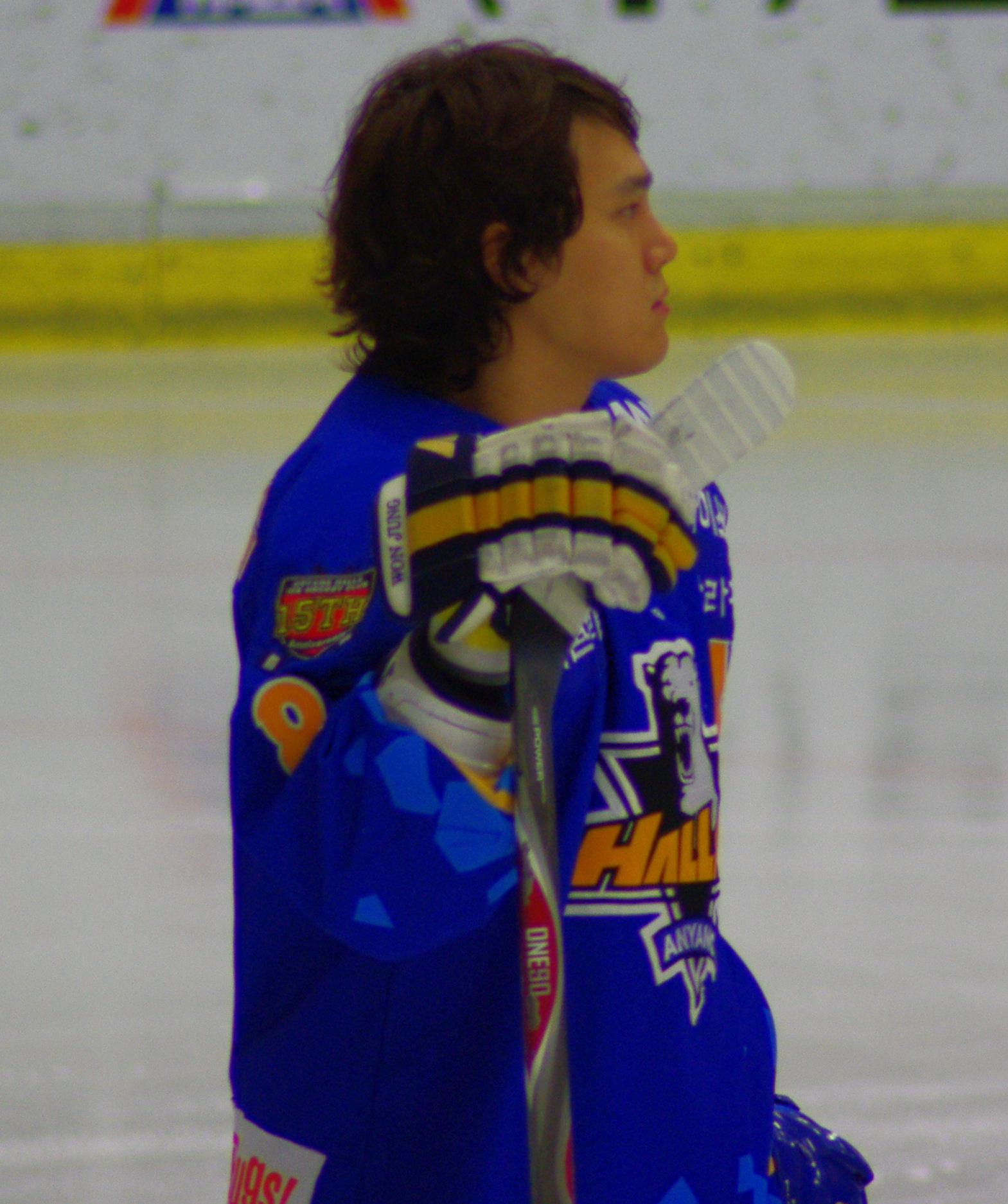 Kim Won-jung playing for Anyang Halla